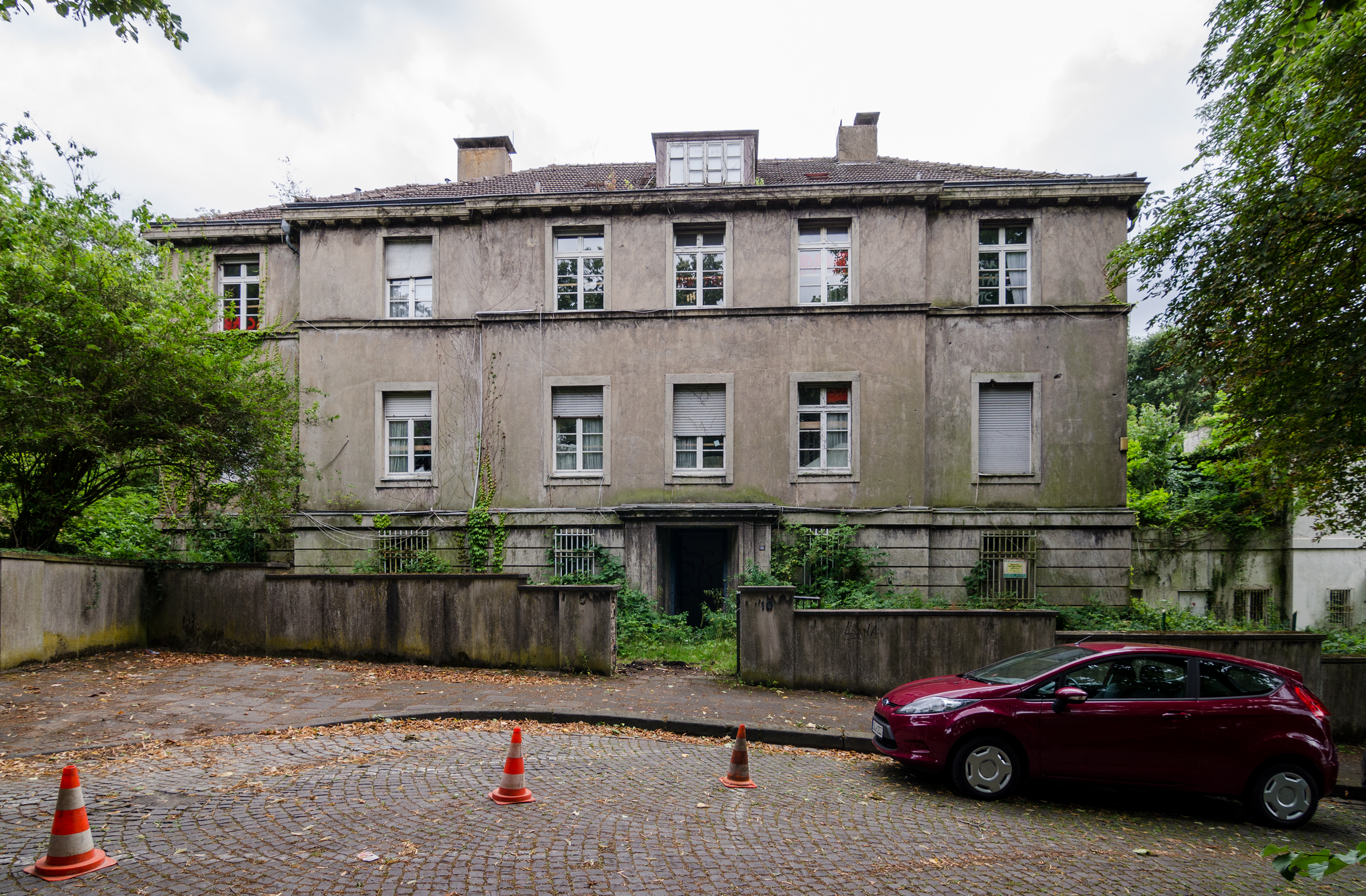 Duisburg (North Rhine-Westphalia, Germany) – borough Mitte, district Duissern – Henle Villa